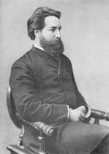 Sergei Korsakoff (1854-1900), Russian psychiatrist